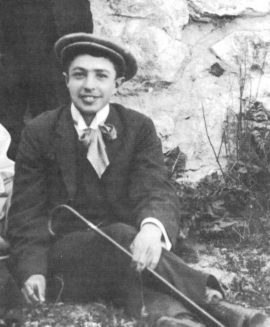 Photograph of the Finnish artist Topi Vikstedt.